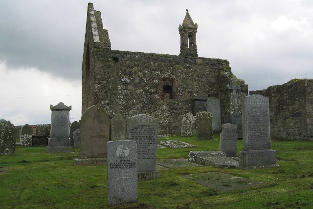 Old Pitsligo Parish Church near Rosehearty.